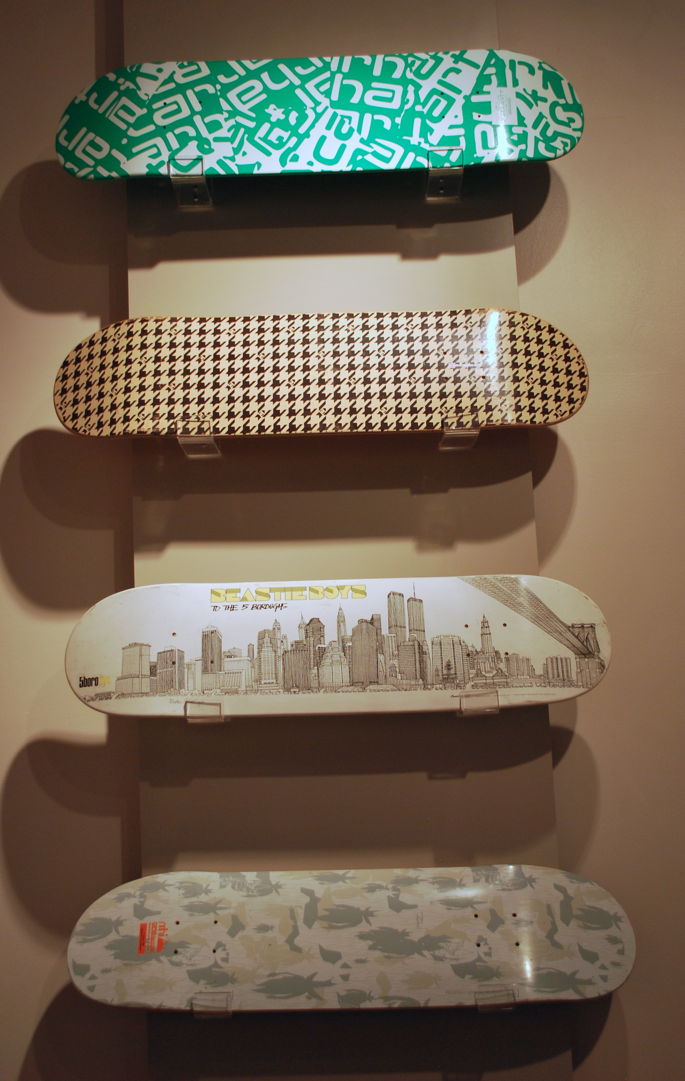 Part of the skateboard collection of Perseo Medrano at the Collection of Collections exhibit at the Museo del Objeto del Objeto in Mexico City